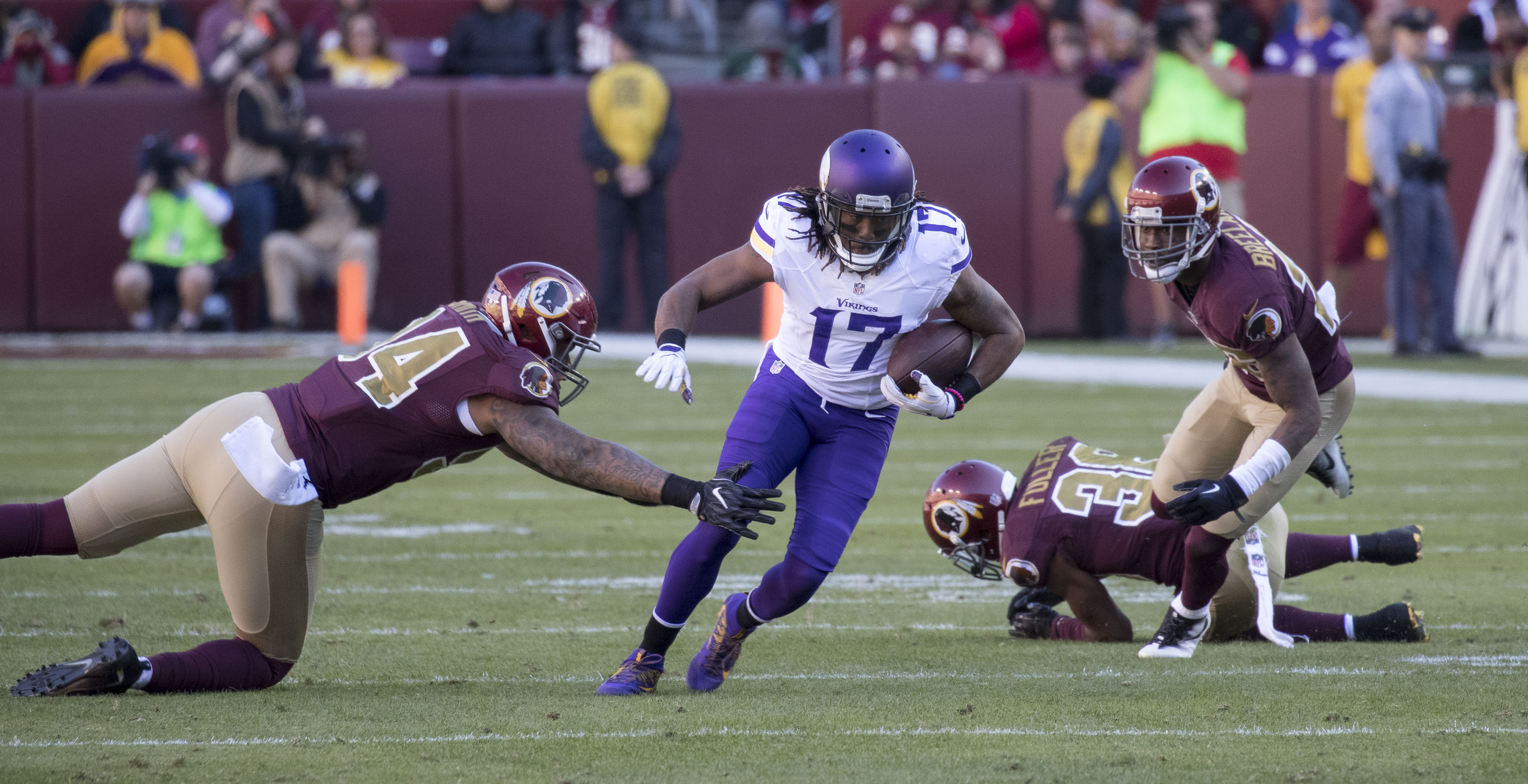 Vikings at Redskins 11/13/16